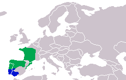 Distribution of Triturus marmoratus, based on Nöllert/Nöllert: "Die Amphibien Europas"